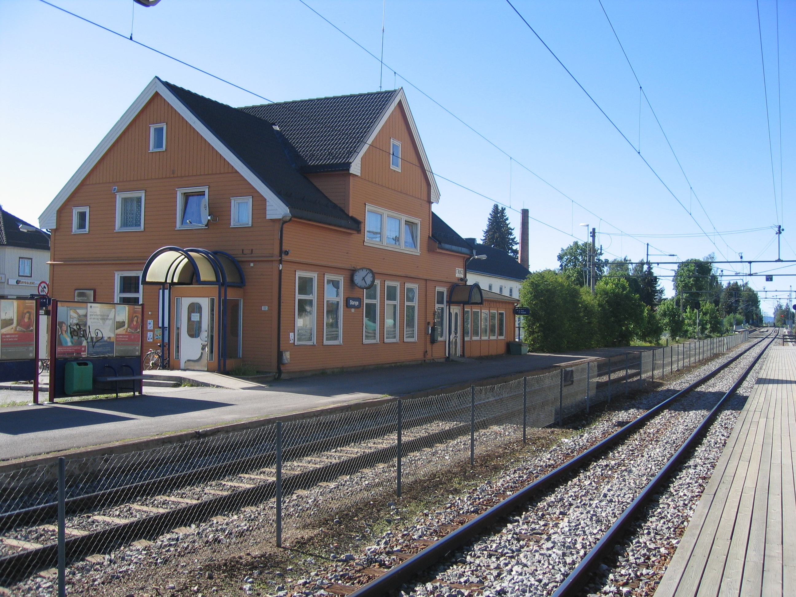 Stange railway station, Hedmark, Norway.